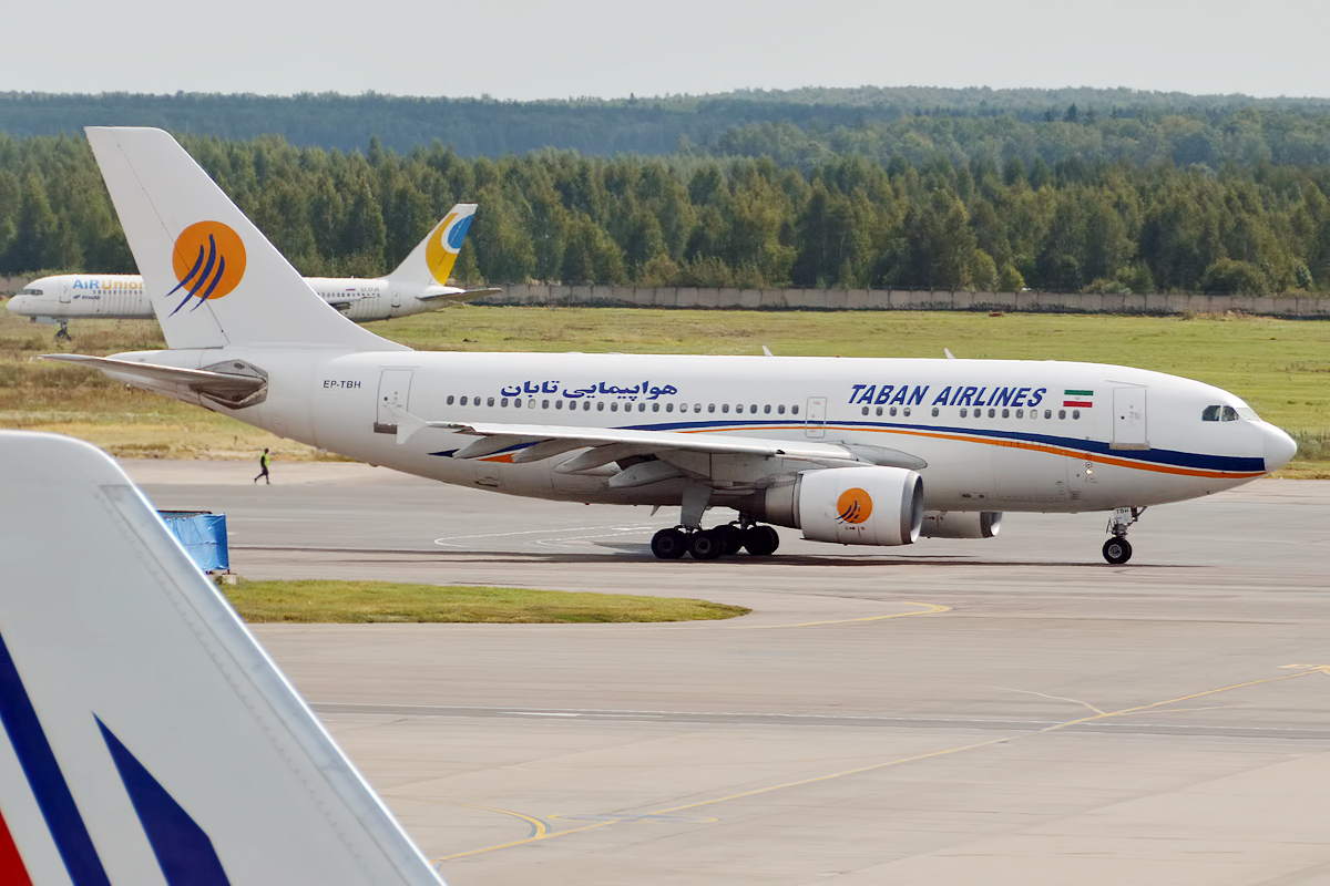 Taban Airlines, EP-TBH, Airbus A310-304